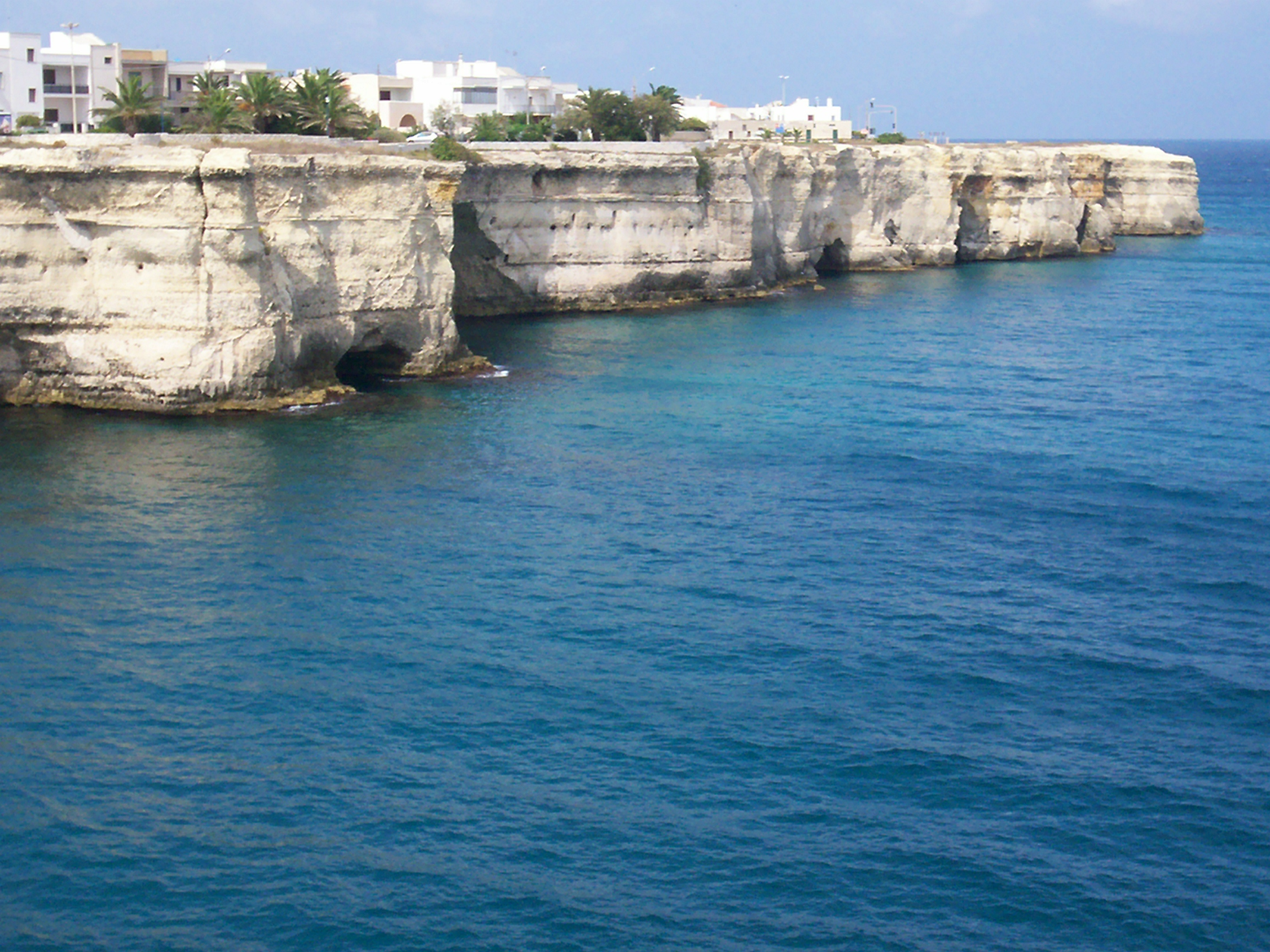 Torre dell'Orso, Adriatic sea. It is a bathing locality part of the town of Melendugno, Province of Lecce, Italy